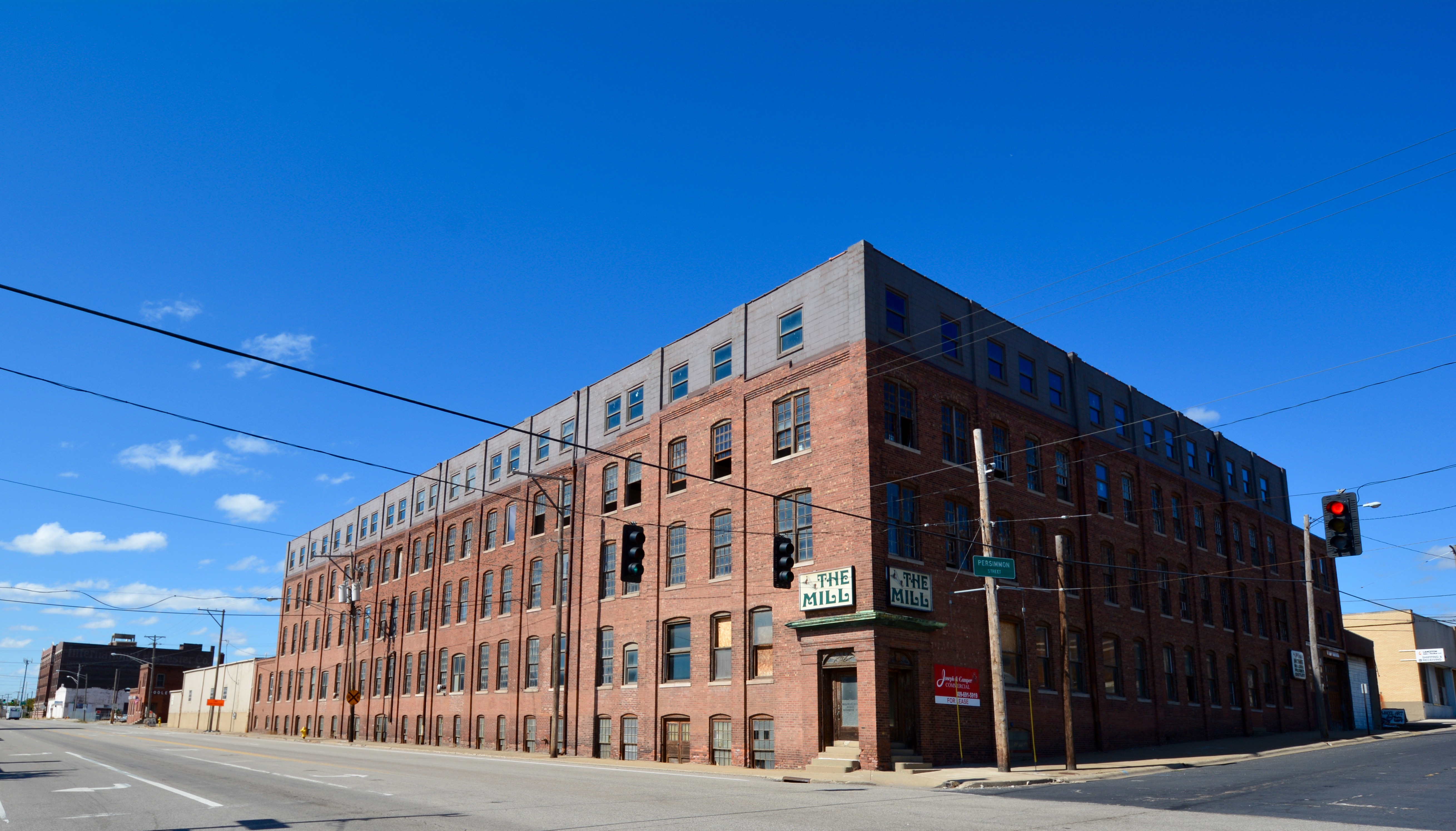 1101 S.W. Washington Street, at the west corner with Persimmon Street, in the Warehouse District of Peoria, Illinois; viewed from the east. Built in 1891, this building housed a woodworking company known as Wahlfeld's until 1997, and is still owned by that family. Known as "The Mill" since, it's been used as artists' studios since about 2015.